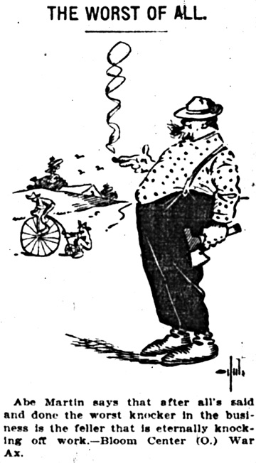 Cartoon by Kin Hubbard featuring a character named Abe Martin, with a caption underneath from the Bloom Center, Ohio, War Ax, dated September 15, 1904.